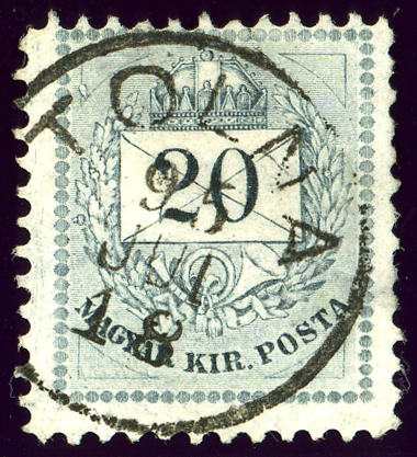 Kingdom of Hungary, 20 kr stamp, issue 1881, late cancelled at TOLNA in 1895 (Hungary, Tolna County).